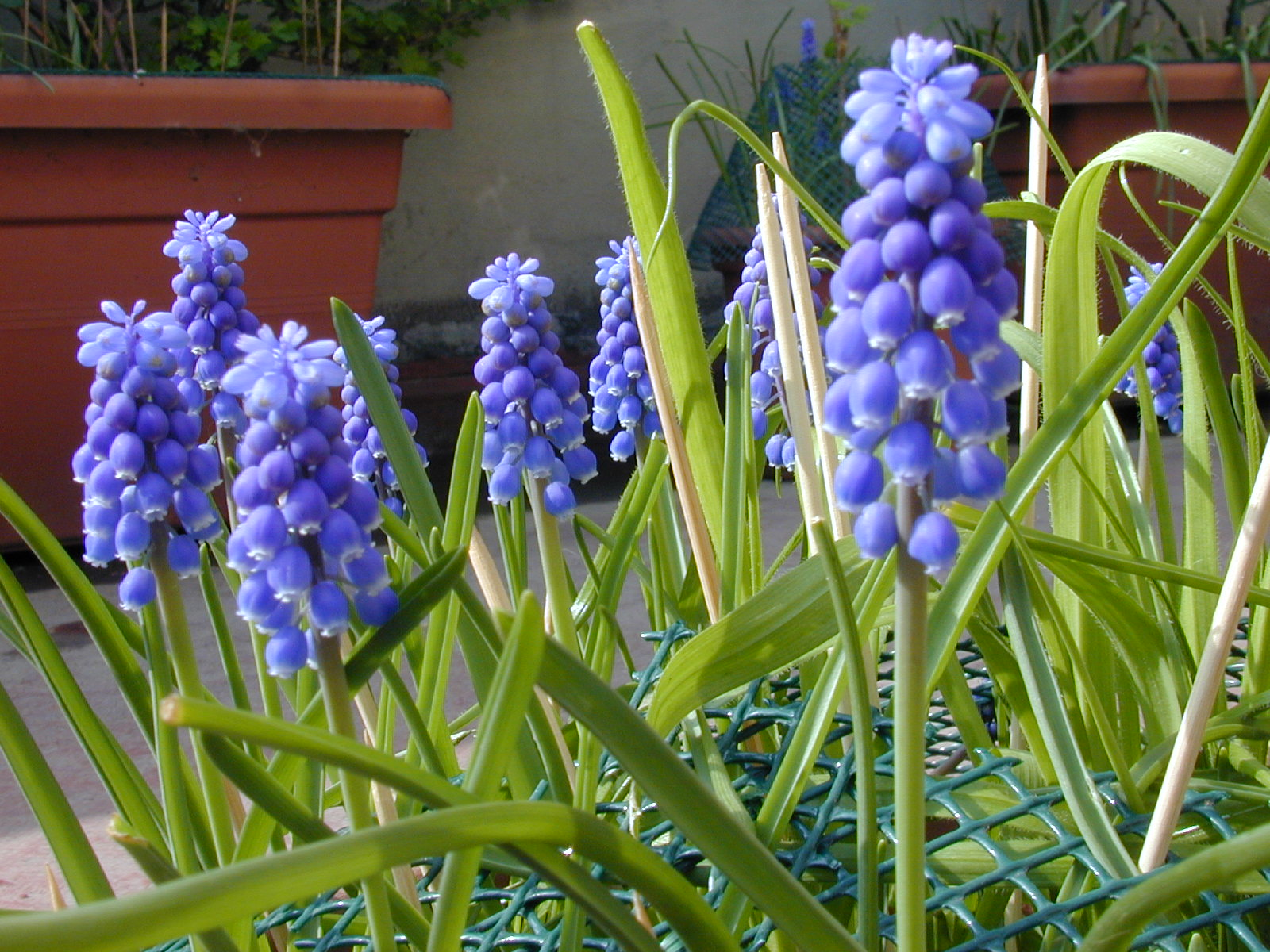 Muscari flowers